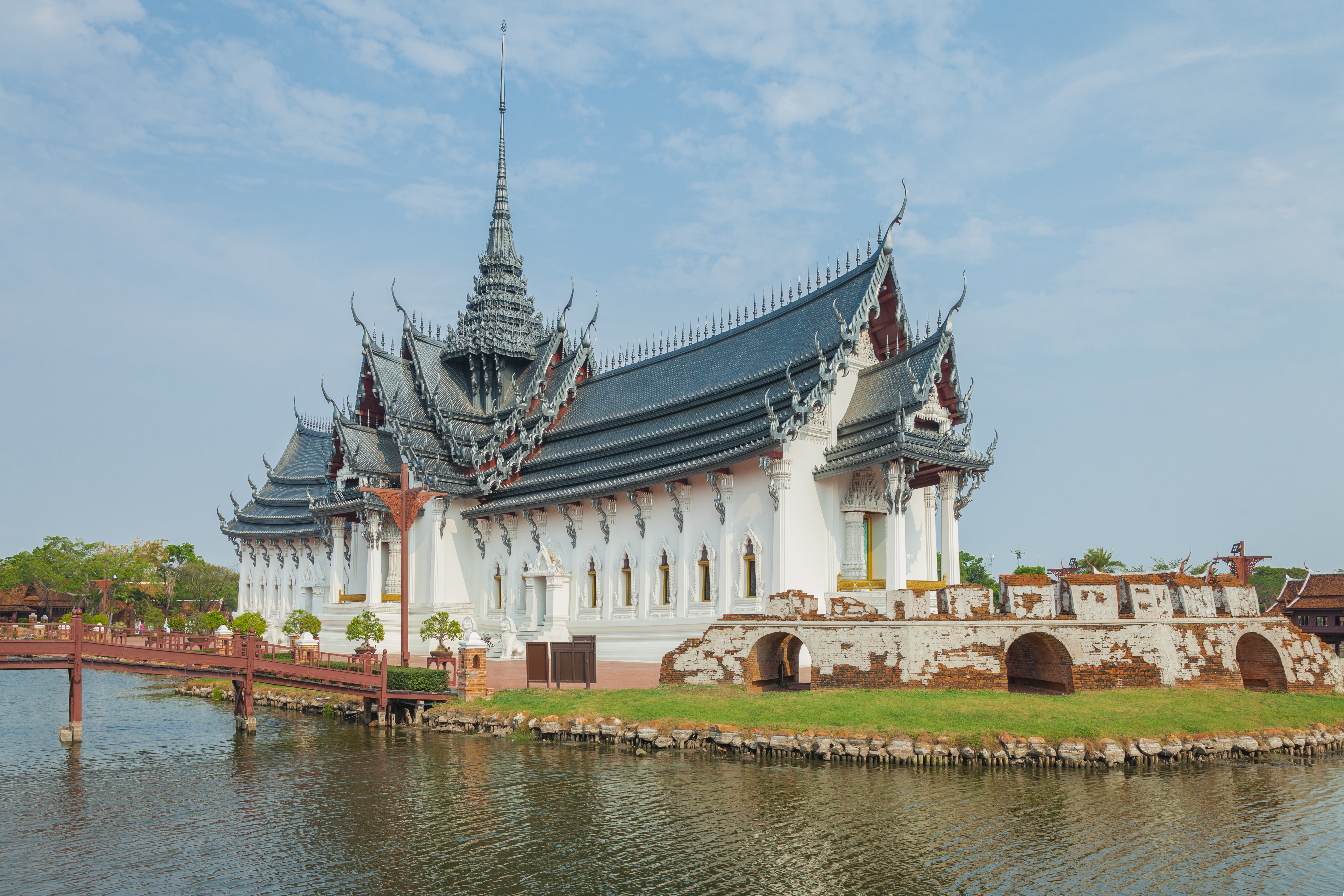 Sanphet Prasat Throne Hall, Ayuthayan kings' palace, replica in Mueang Boran (Ancient City), Samut Prakan Province.